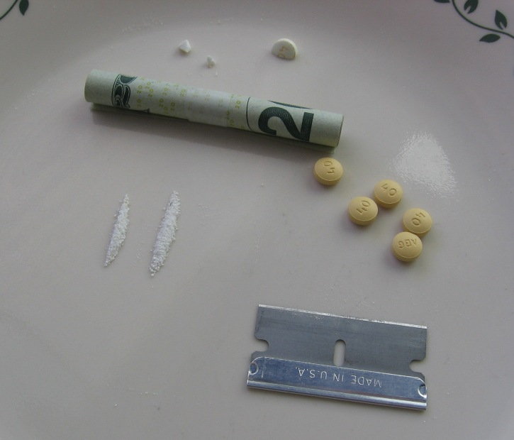 Original summary: "OxyContin tablets crushed into powder for insufflation (snorting). Notice the tablets at the top with the coating removed. The tablets are distributed by AB Generics, hence the ABG stamp on the back."